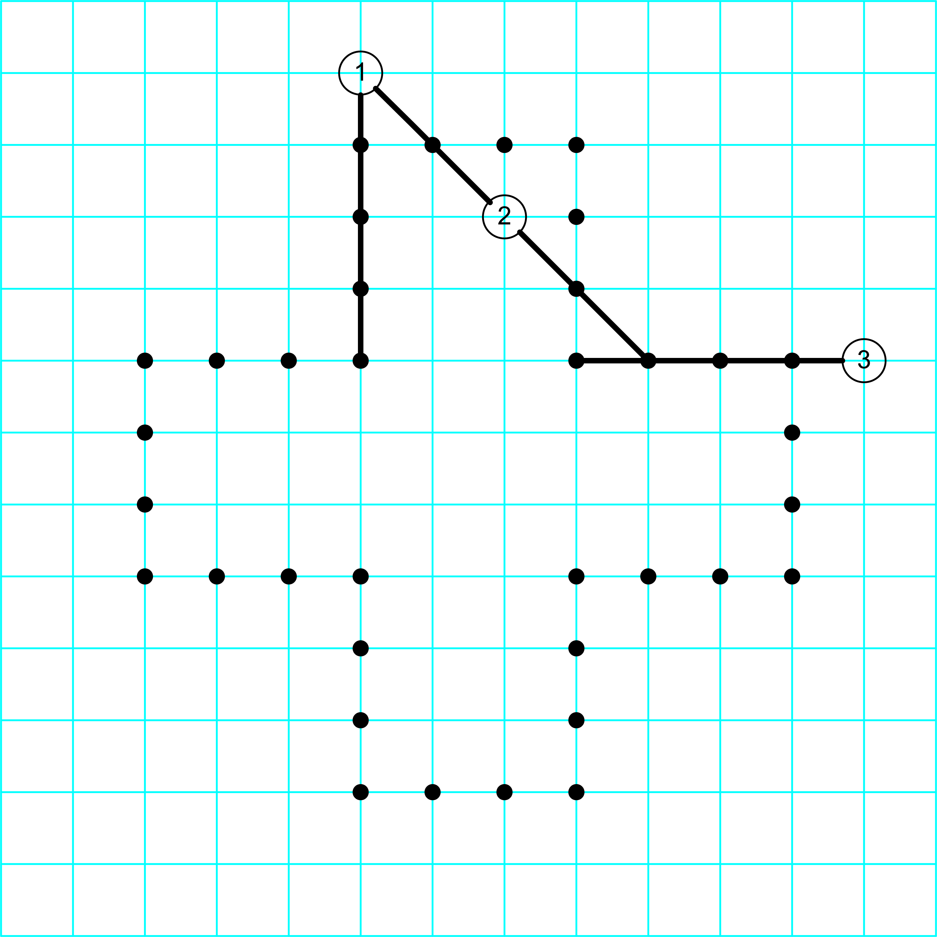 An example of a Morpion solitaire game, 5 in a row, after 3 moves.